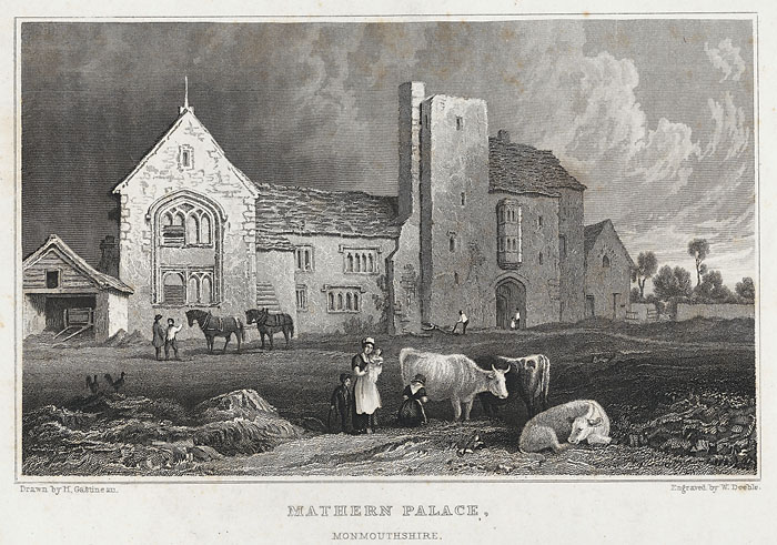 A farmyard scene showing a cow being milked and horses in harnesses.